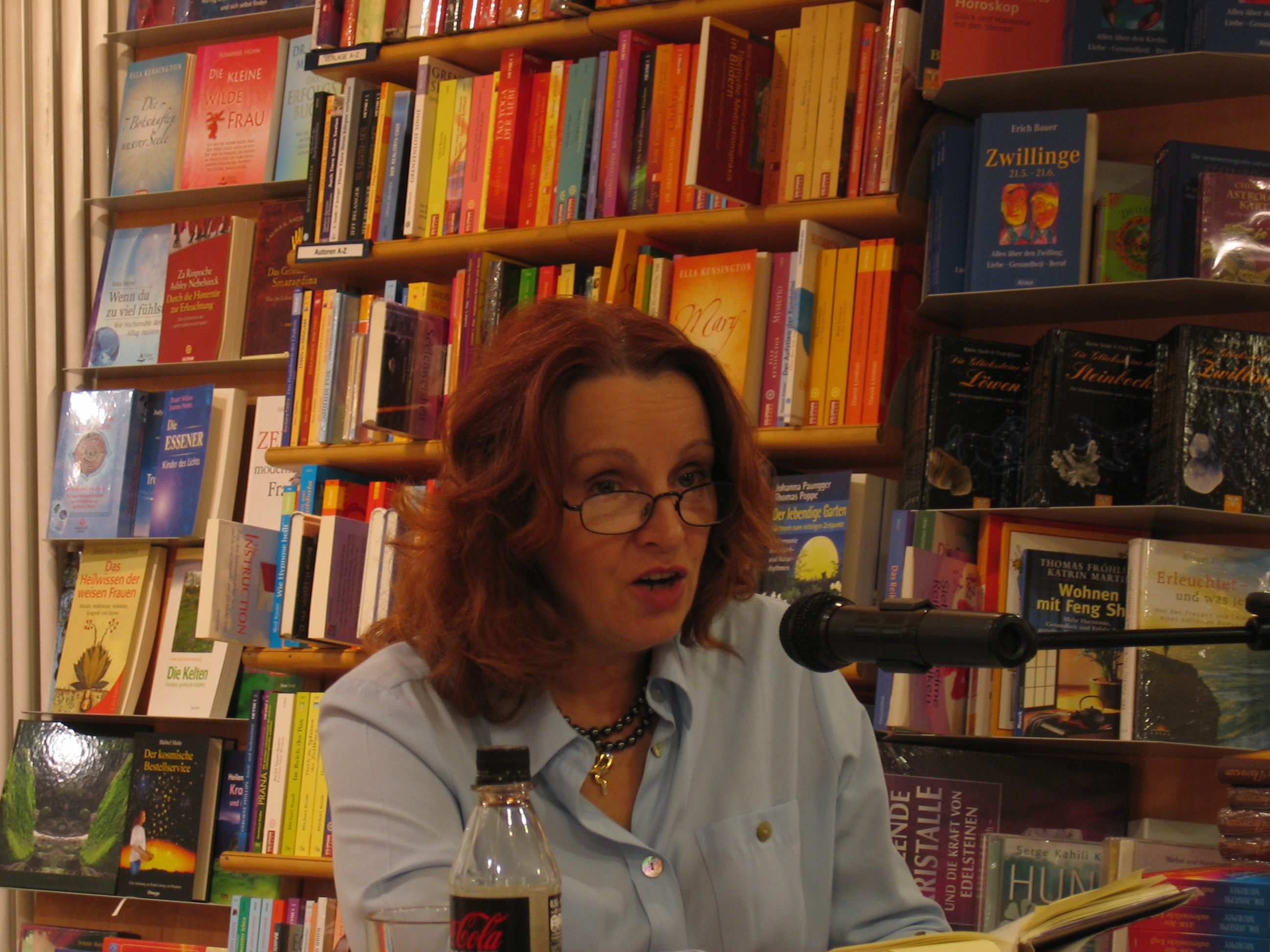 The writer Petra Hammesfahr presents one of her books in Cologne, Germany